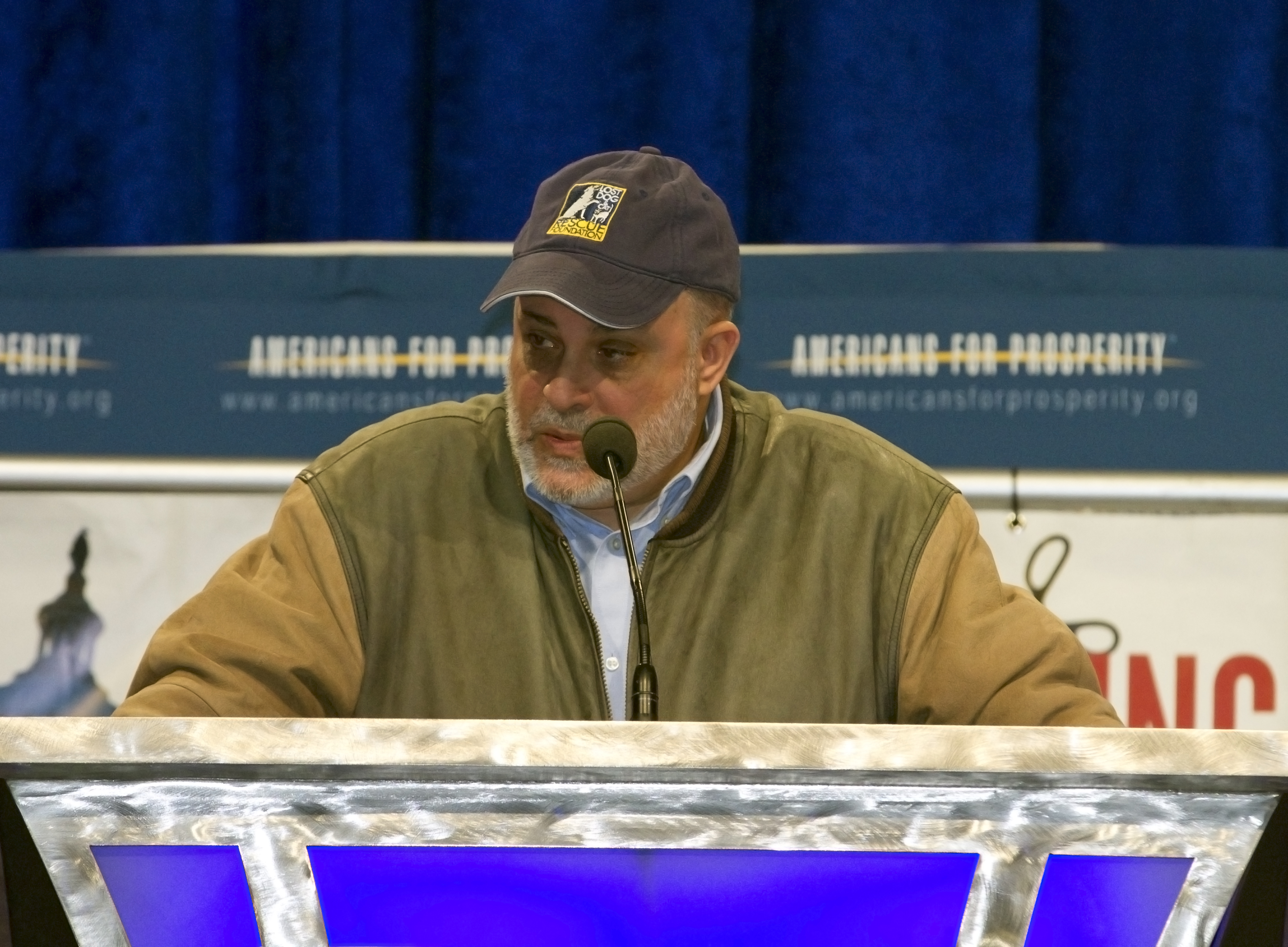 Mark Levin at the Americans for Prosperity Defending the American Dream Conference. Photos taken at the Americans for Prosperity Defending the American Dream Conference on November 4 and 4 2011.